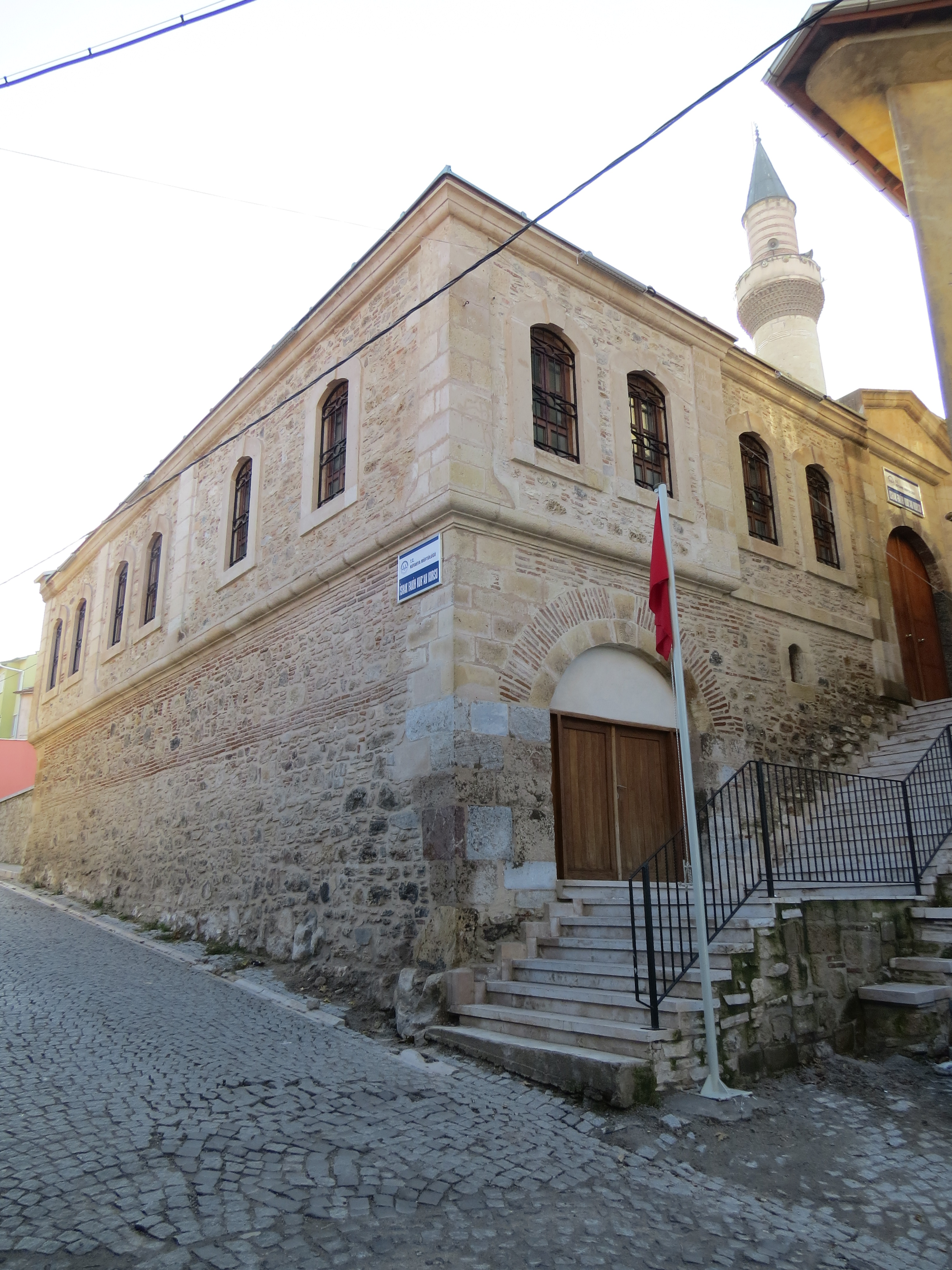 kütahya ishak fakih medresesi